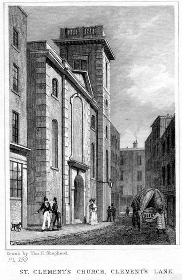 SHEPHERD, Thomas Hosmer, 1793-1864 : [CLEMENTS LANE - ST. CLEMENT EASTCHEAP] ST. CLEMENT'S CHURCH, CLEMENT'S LANE. [London : Jones & Co., 1831]. Llooking south down Clements Lane, with St Clement's church to the left. Engraved by James Charles Armytage (1802-1897) from an original drawing (now in the Museum of London) by Thomas Hosmer Shepherd, the master recorder of 19th-century London. First appeared in Shepherd's part-work series "London and its Environs in the Nineteenth Century" (London 1829-1832). Steel line engraving on paper. Later hand colour.